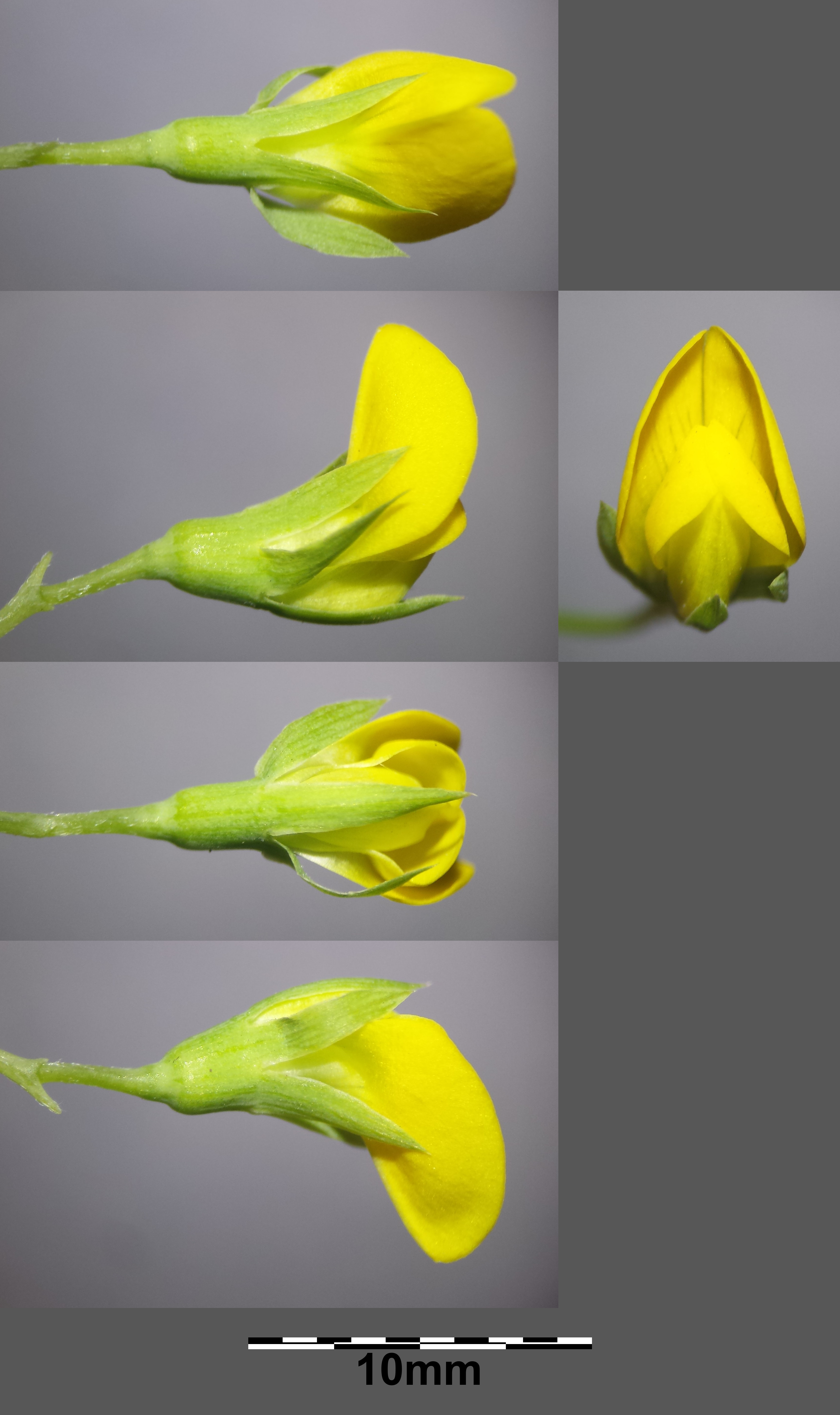 Flower Taxonym: Lathyrus aphaca ss Fischer et al. EfÖLS 2008 ISBN 978-3-85474-187-9 Location: Oberhohenstein northwest of Limberg, district Hollabrunn, Lower Austria - ca. 340 m a.s.l. Habitat: semi-dry grassland